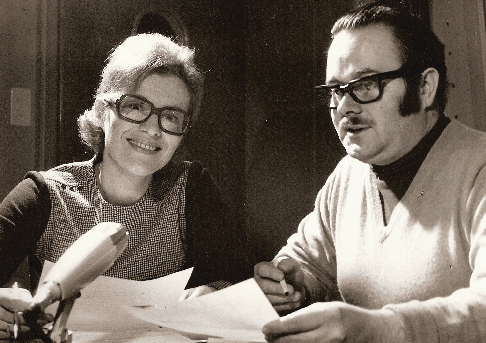 Jeannette and Martin Plattner